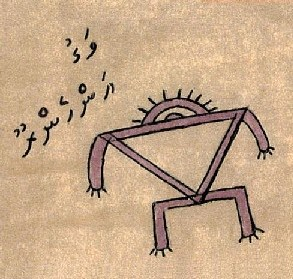 Copy of a magical drawing. Diguvando. Fua Mulaku. Ink and tempera on paper